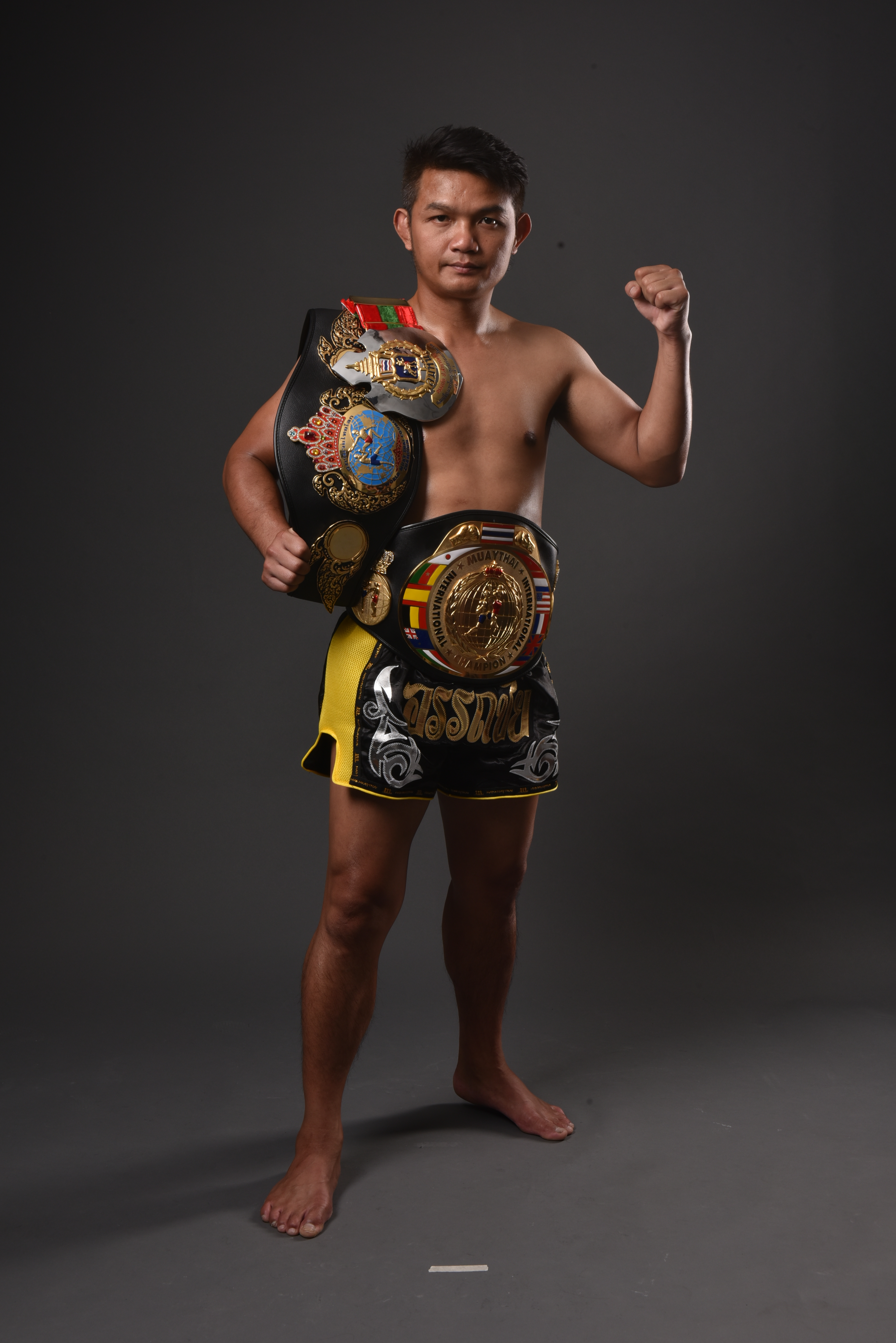 Attachai Fairtex - 3 time Muay Thai World Champion